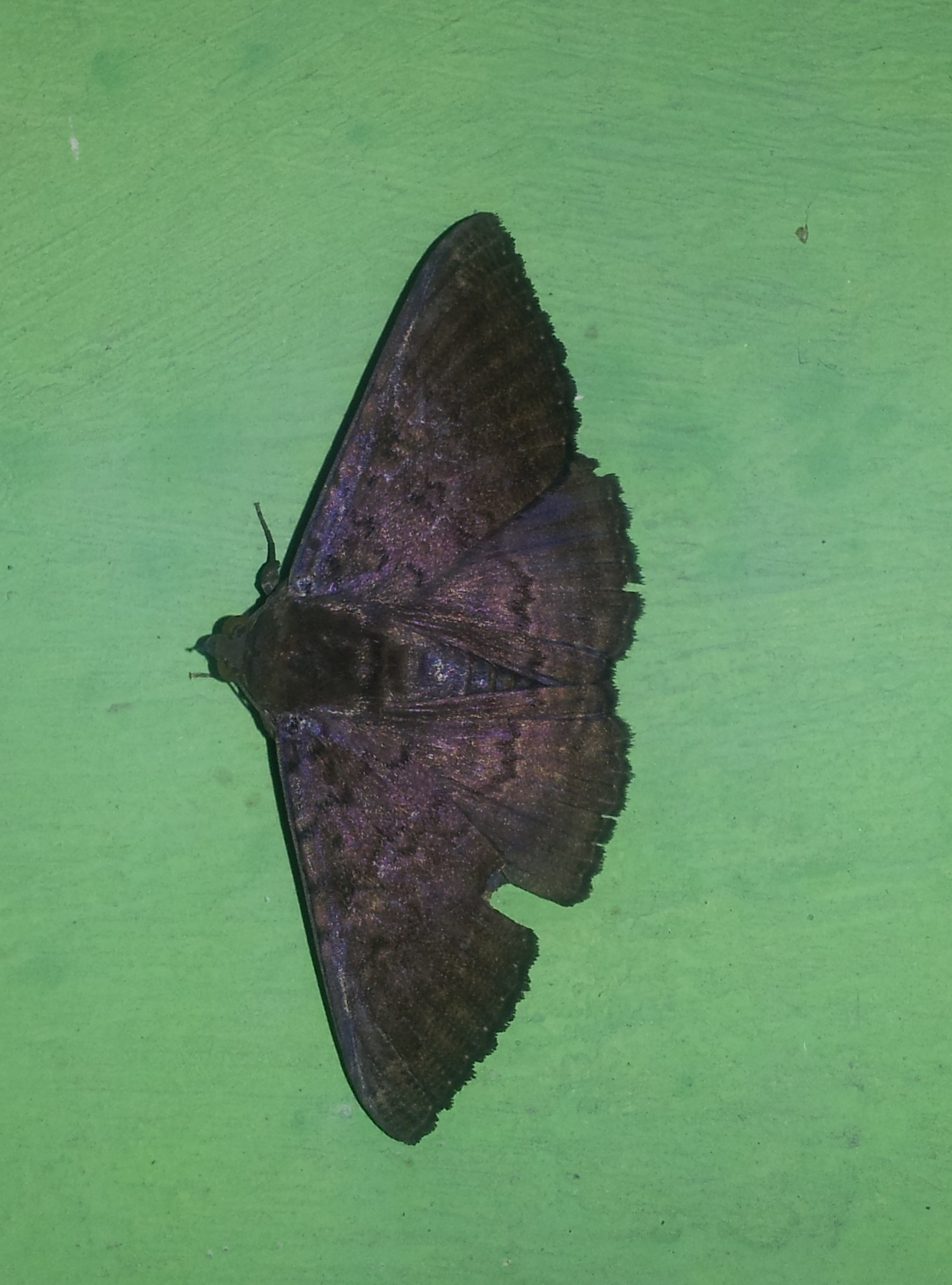 Moth sp. in Kandalama, Sri Lanka - 7